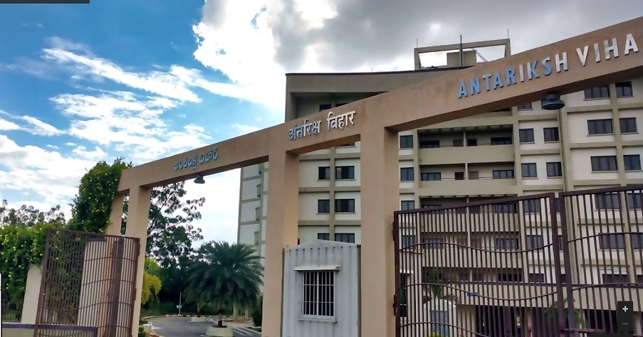 nrsc (ISRO) shadnagar